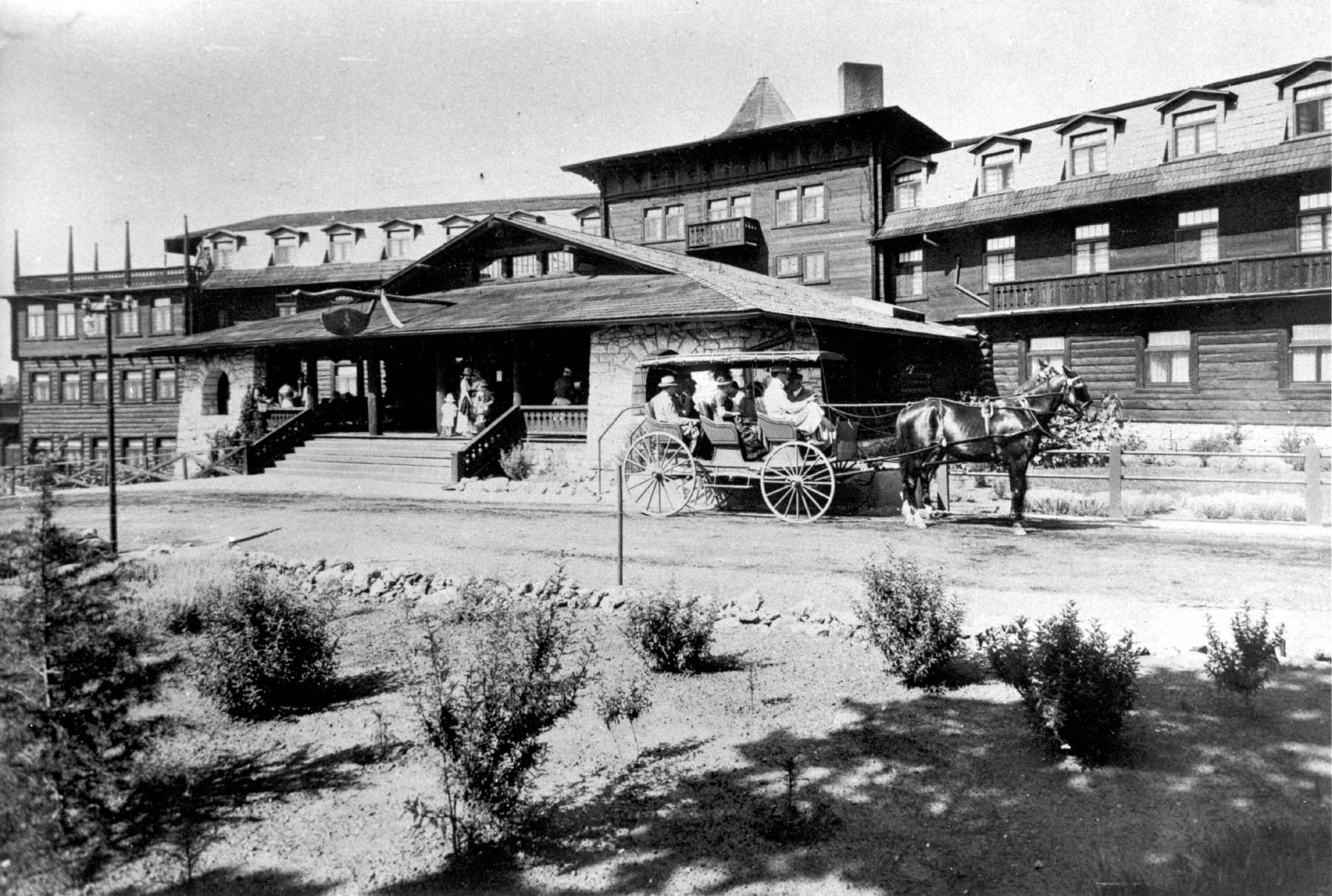 El Tovar Hotel in the early 1900s — in Grand Canyon Village on the South Rim, Grand Canyon National Park, Arizona. Within the present day Grand Canyon Village Historic District.